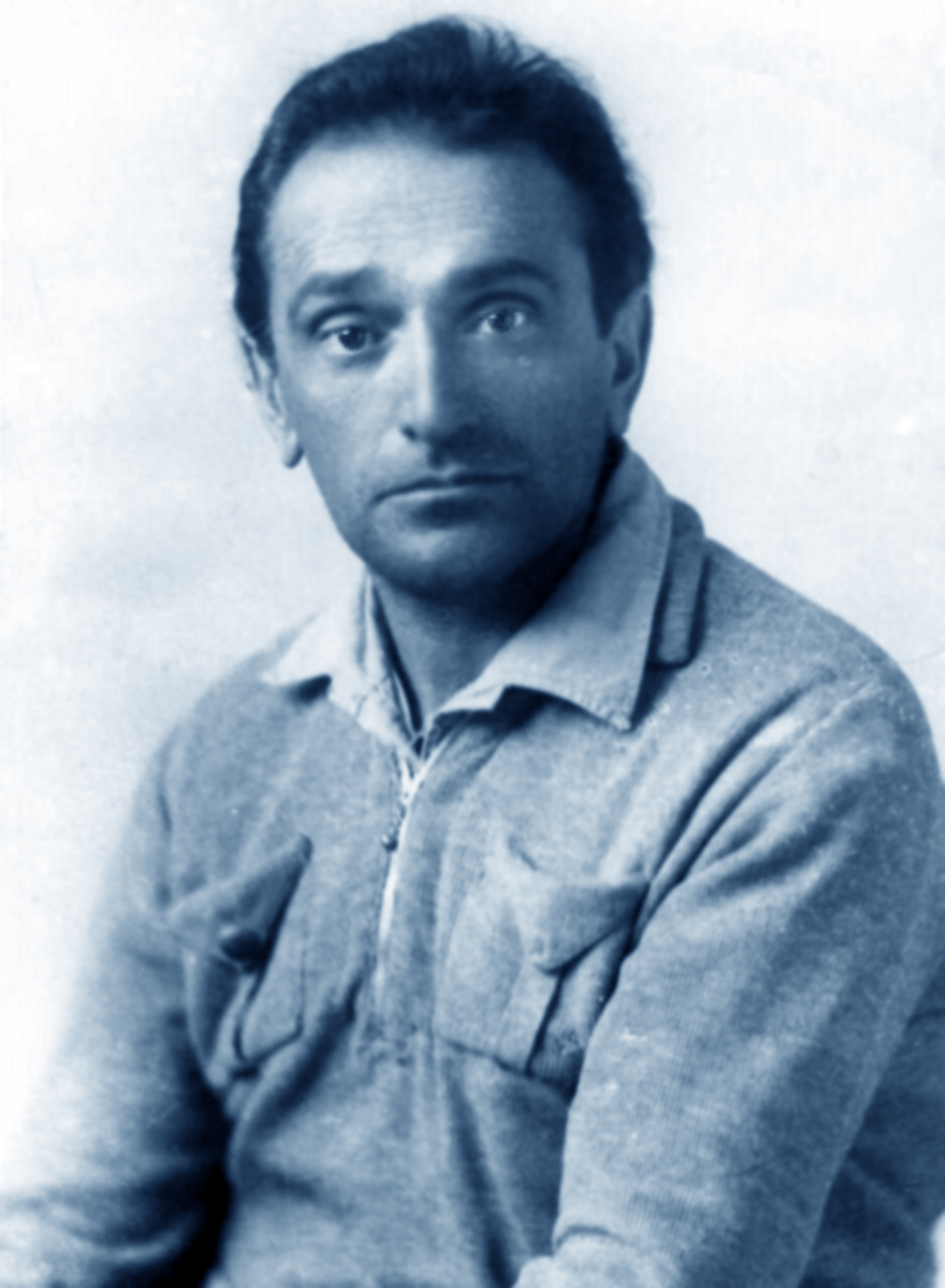 Yehuda Kopolevitz Almog - Pioneer and leader of Gdud Ha'Avoda, a socialist Zionist work group. Founder of the potash mining industry in the Dead Sea and of Kibbutz Beit HaArava. Was the first Tamar head of the council. Kibbutz Almog near the Dead Sea is named after him.